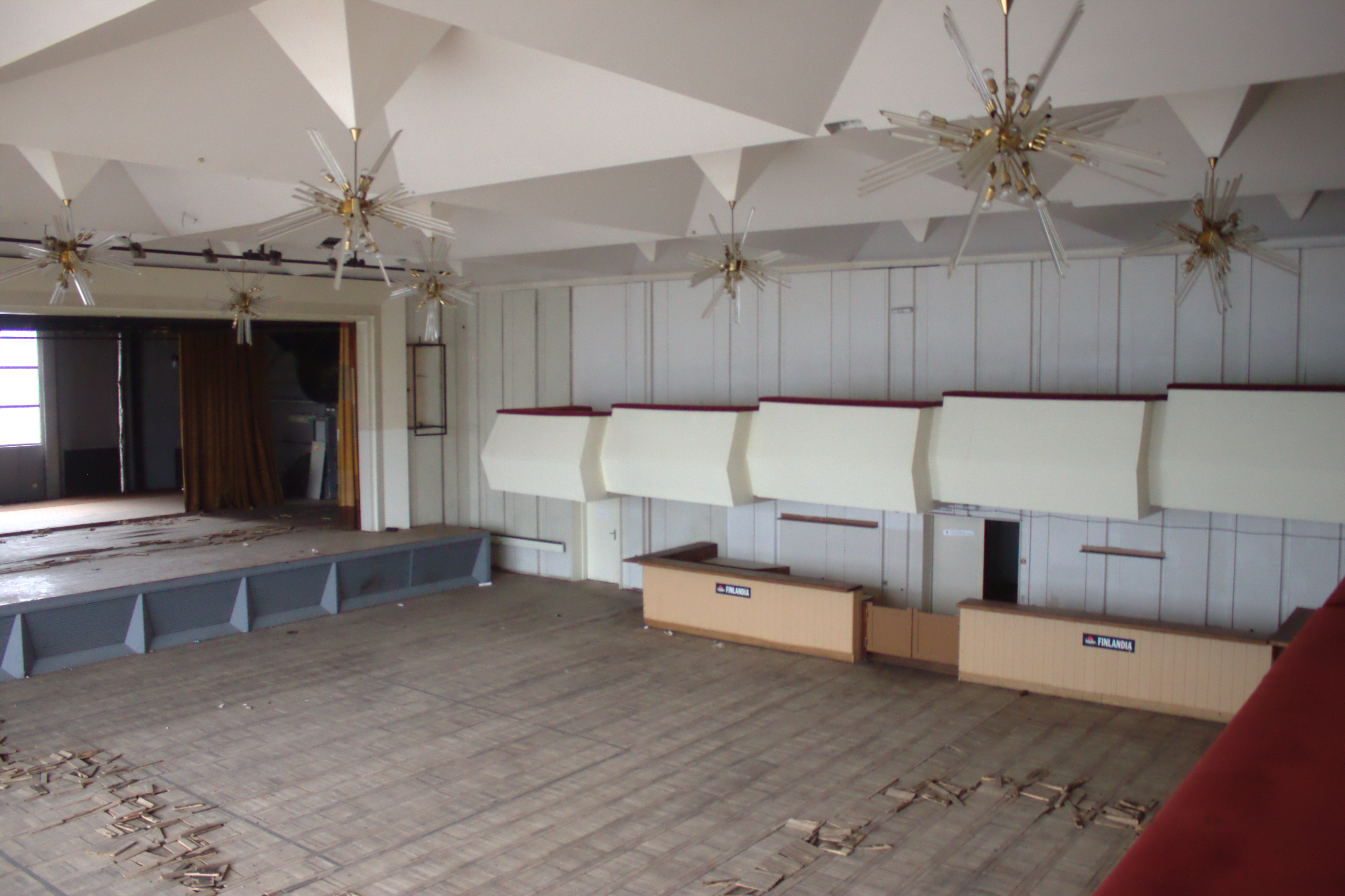 Inside of the closed Eden cultural center in Prague-Vršovice, Prague, CZ